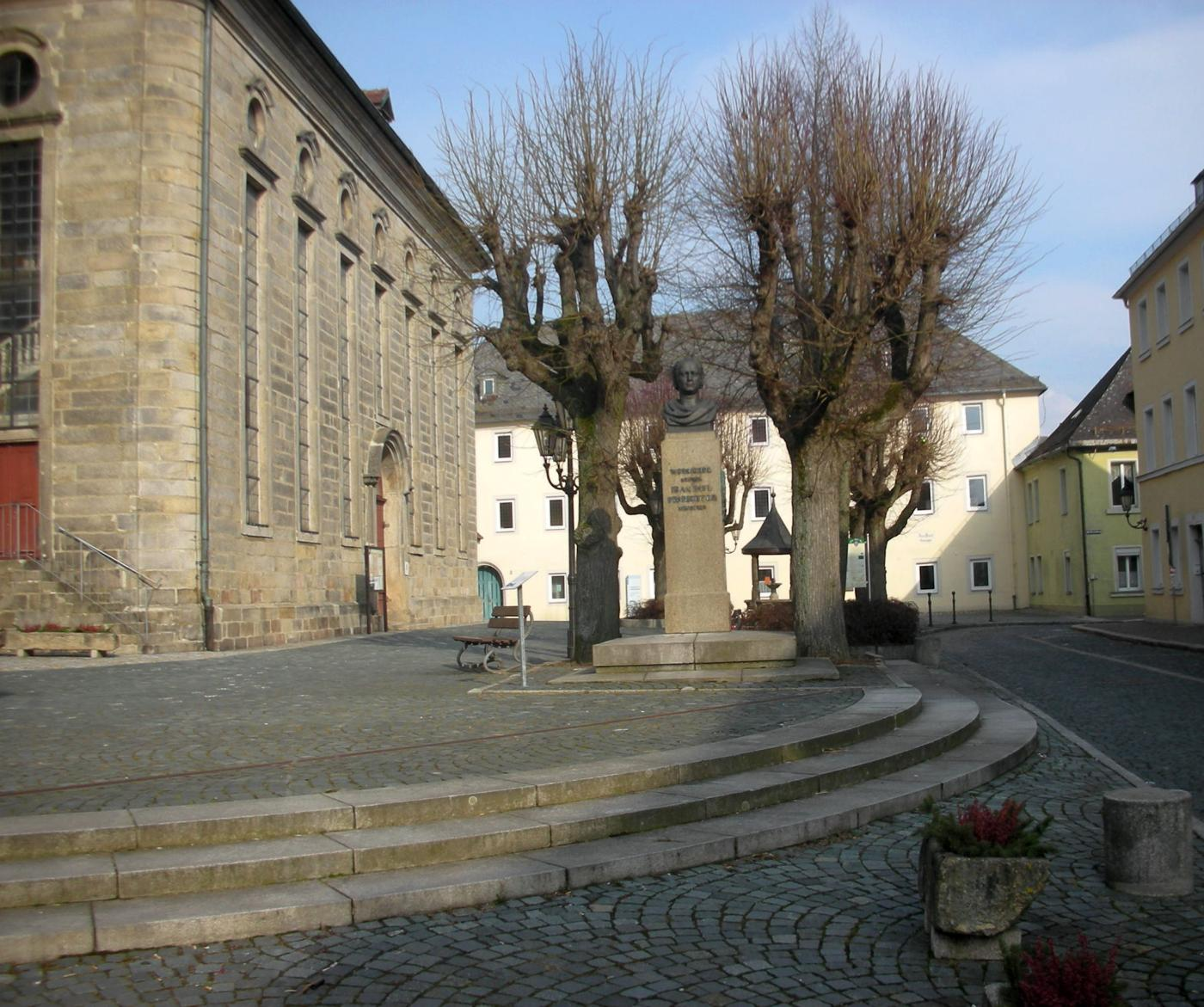 Birthplace of Jean Paul in Wunsiedel (building in background)